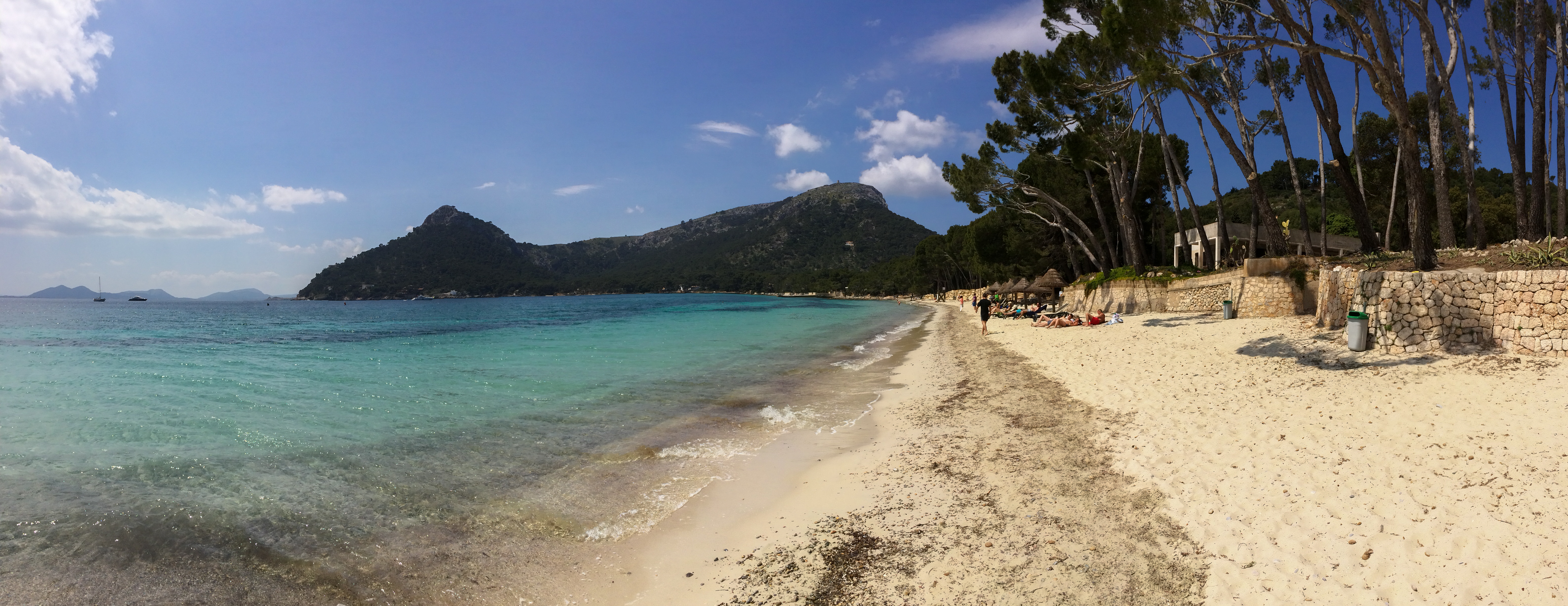 Strand Cap Formentor Mallorca